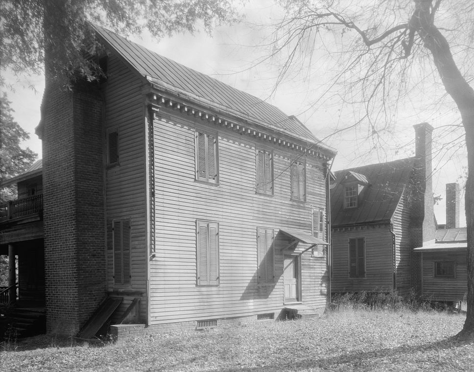 Black-and-white 8 x 10 photographic negative of Berry Hill plantation, Danville vicinity, Pittsylvania County, Virginia, by the American photographer and photojournalist Frances Benjamin Johnston. Circe 1930-1939. Photographer Johnston donated her archives to the Library of Congress in perpetuity, hence there are no restrictions on publication, as per the Library of Congress web site. Image courtesy of the Prints and Photographs Division, Library of Congress, Washington, D.C.